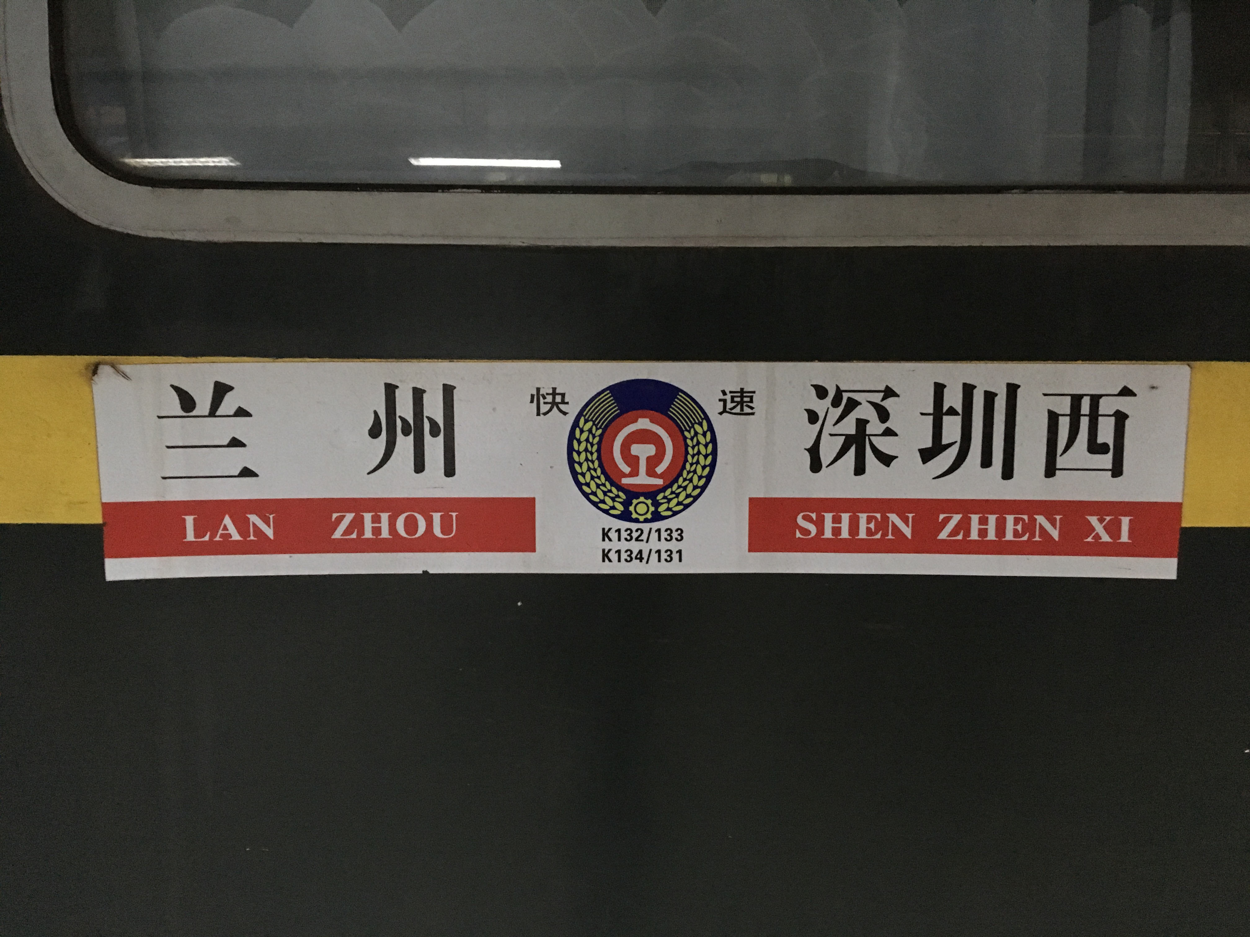 Board of K131-132-133-134, taken at Lanzhou station.